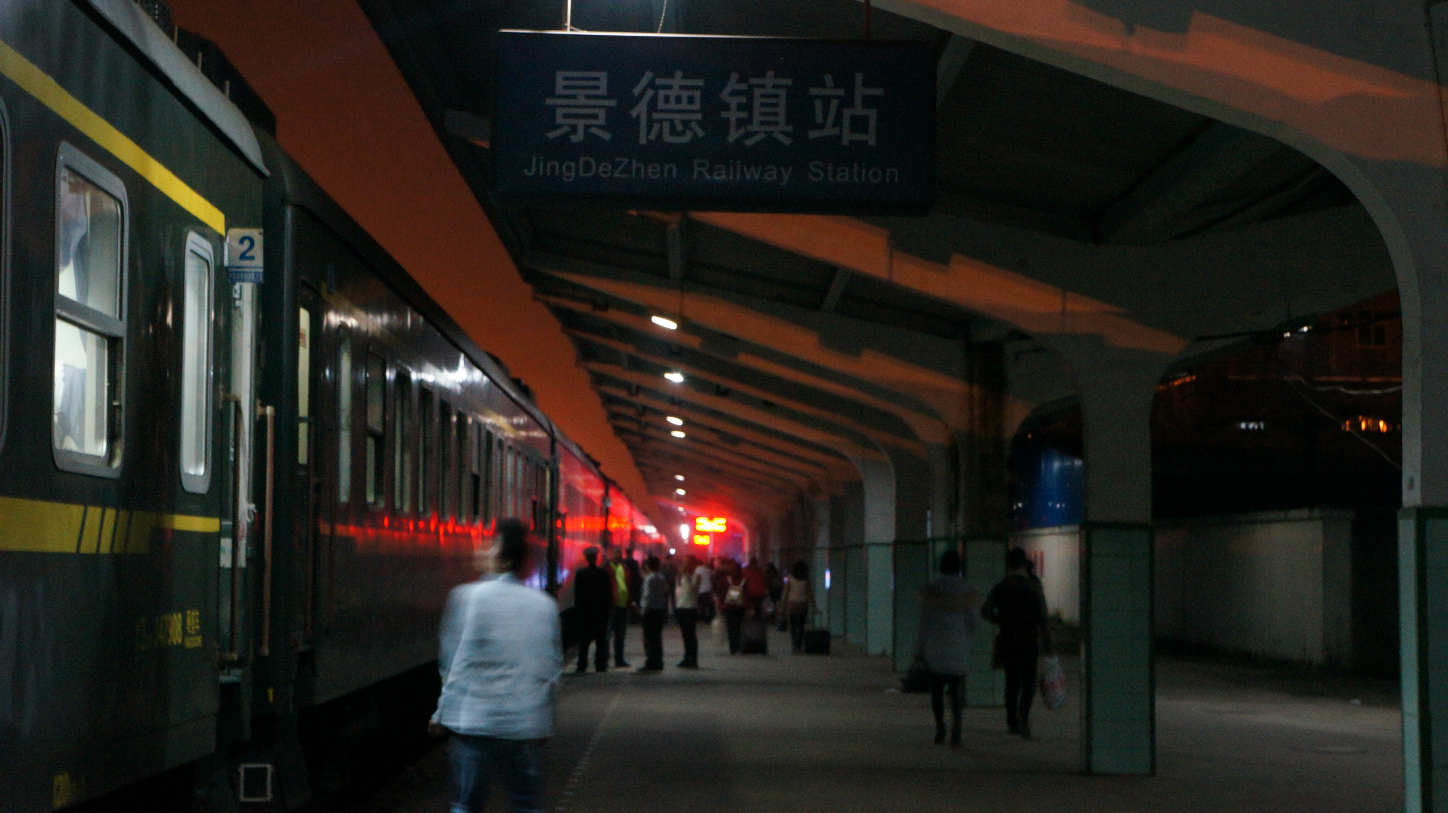 Platform 1 of Jingdezhen Railway Station